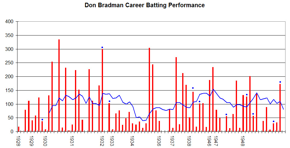 This graph details the Test Match performance of Don Bradman. It was created by Raven4x4x. The red bars indicate the player's Test match innings, while the blue line shows the average of the ten most recent innings at that point. Note that this average cannot be calculated for the first nine innings. The blue dots indicate innings in which Bradman finished not out. This graph was generated with Microsoft Excel 2002, using data from .au.